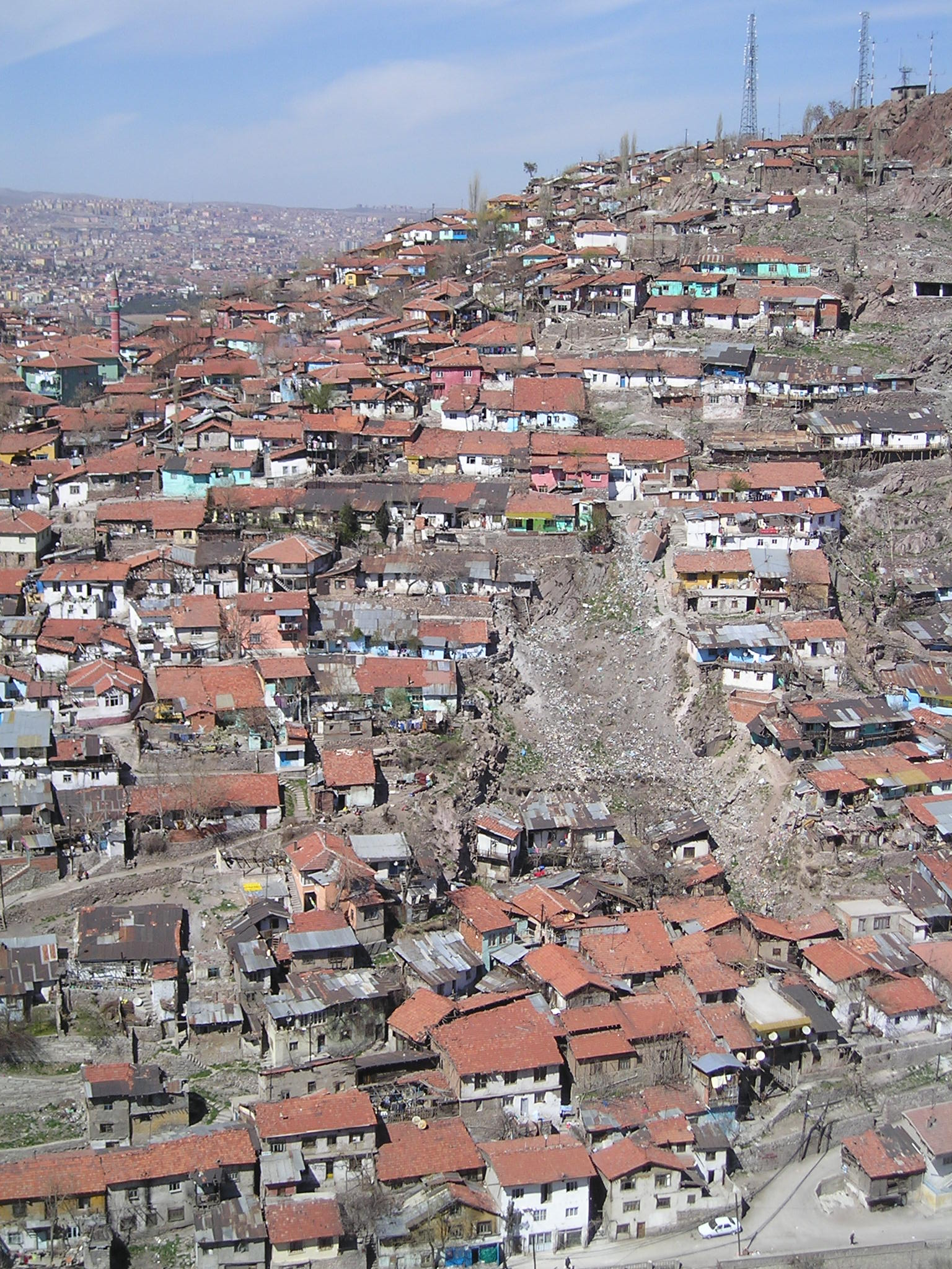 Gecekondu neighborhood in Sincan. Photo by Bertil Videt| 2004.